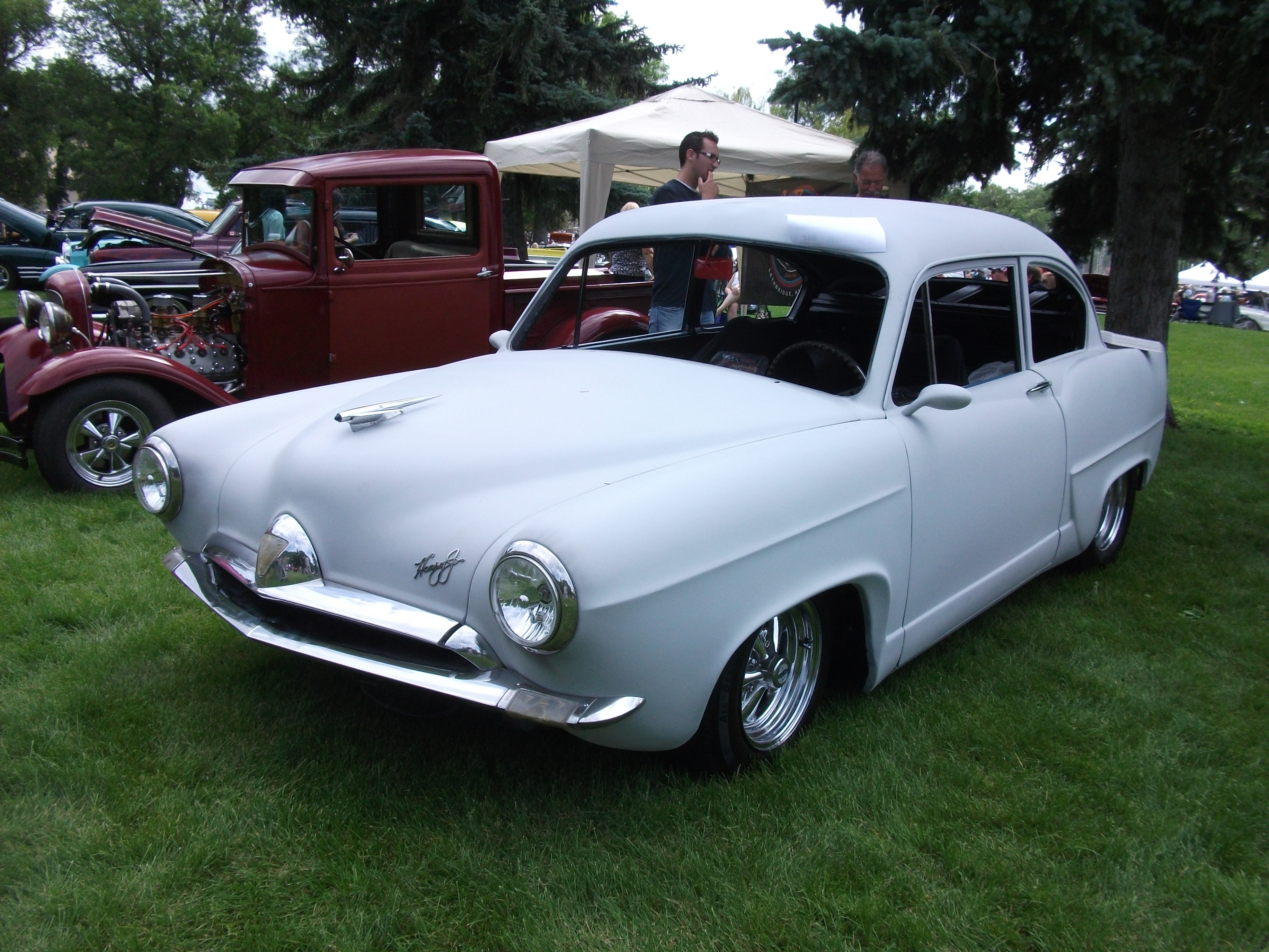 1952 Kaiser Fraser Henry J Corsair.